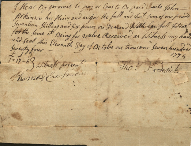 Promissory note from Thomas Broderick to John Atkinson, with a note by Atkinson signing the promissory over to Colonel William Shreve.